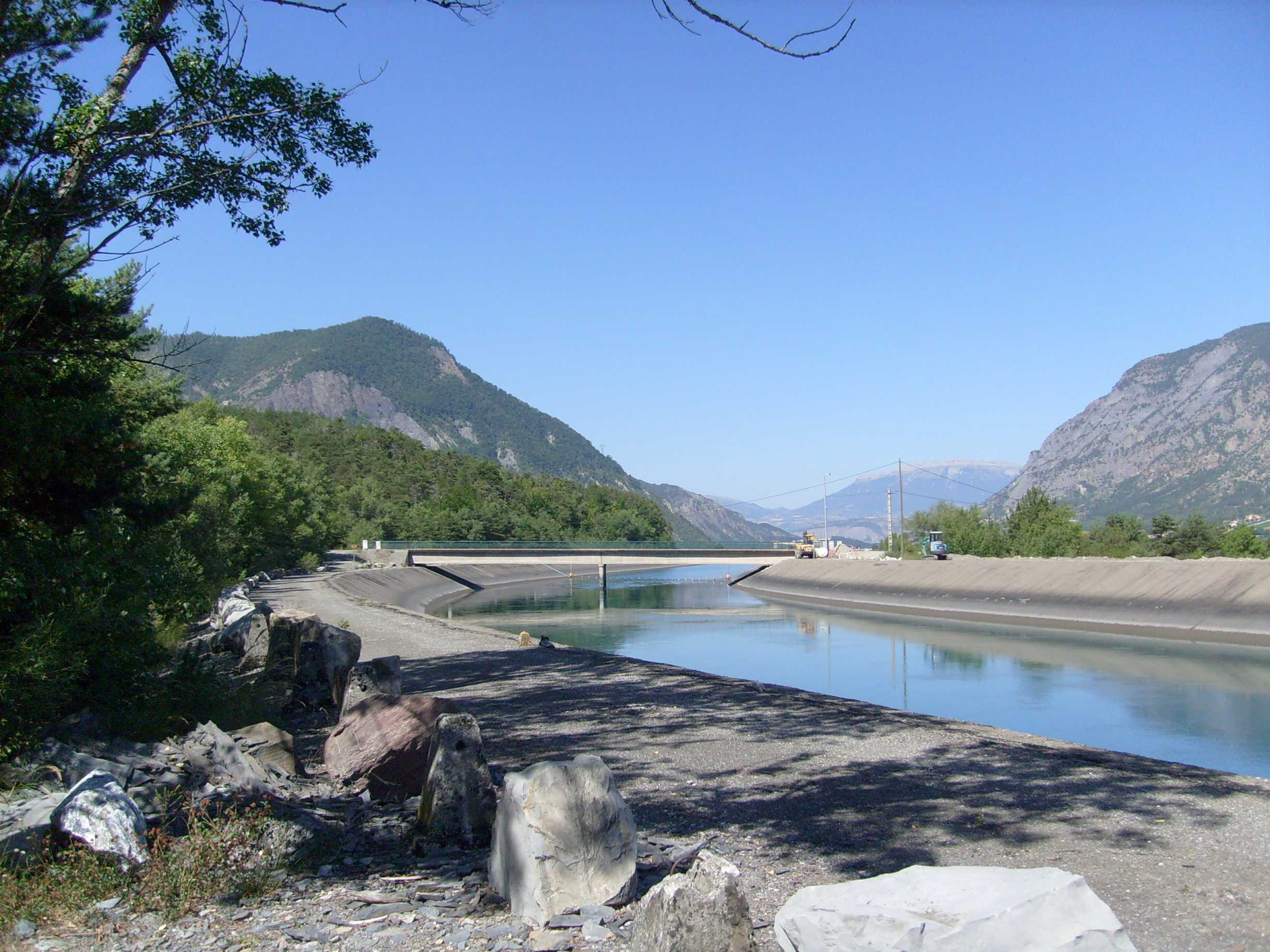 Curban canal near Rochebrune( Hautes-Alpes, France).